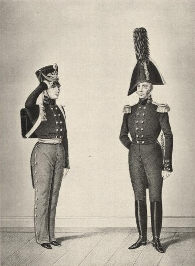 Oberofficer and General of the Foot Guardartillery, Russia 1808-1809.